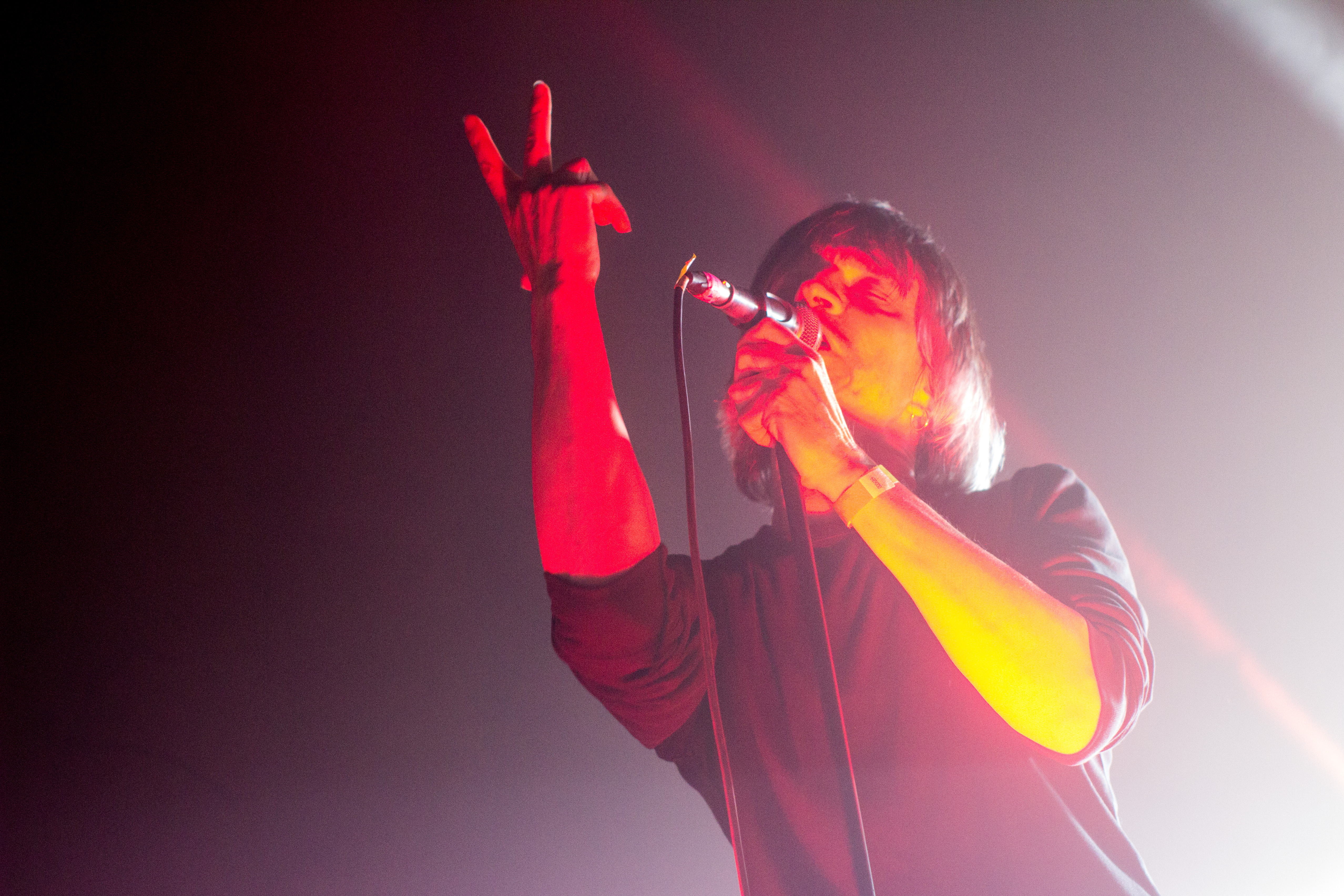 Franz Treichler of The Young Gods performing at SKIF 2014